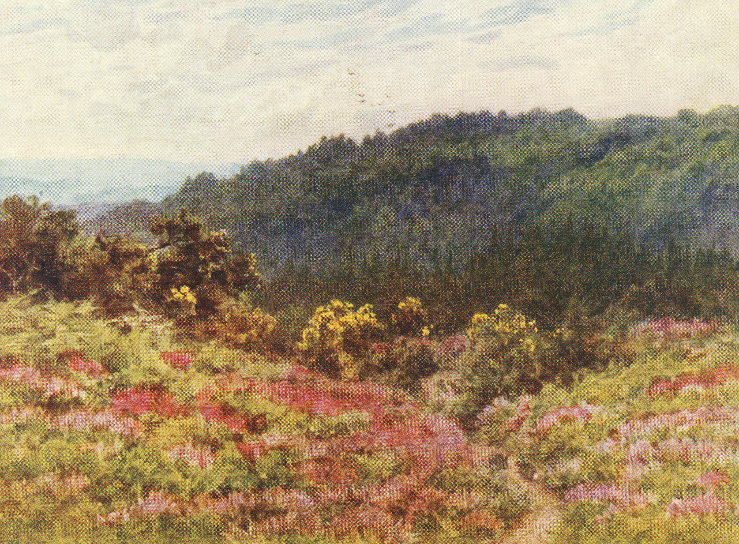 The homes of Tennyson by Arthur Paterson and Helen Allingham. London: A&C Black. Paintings by Helen Allingham (d. 1926). Aldworth, Surrey. Home of Lord Tennyson, the poet.